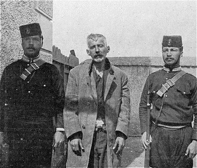 Photograph of Alexandros Schinas, assassin of Greek King George I, taken shortly after his arrest.